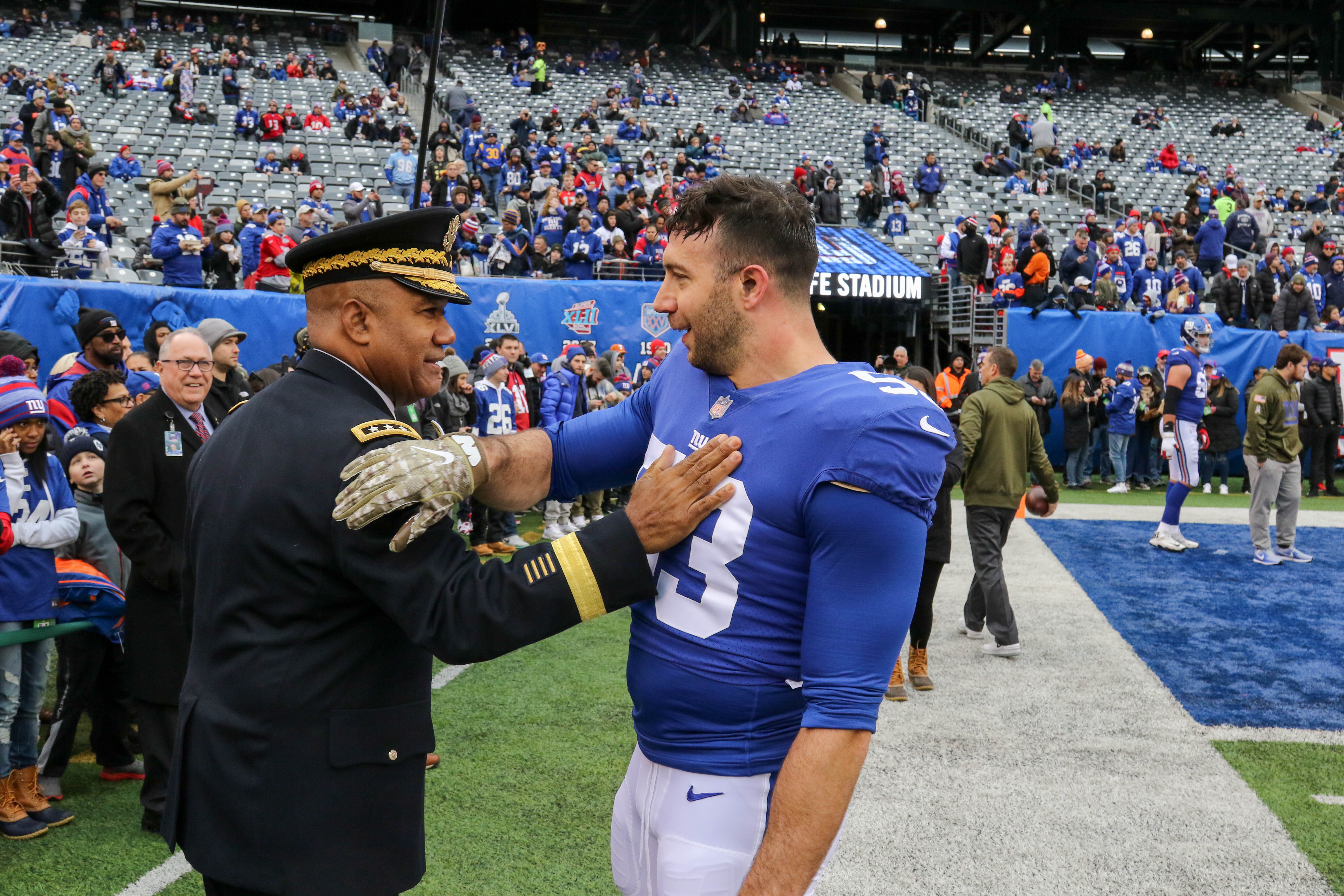 Lt. Gen. Darryl A. Williams, 60th superintendent of the U.S. Military Academy, cadet leadership, members of the cadet glee club and the Benny Havens Band took part in the Salute to Soldier events during the New York Giant's game against the Tampa Bay Buccaneers Sunday, Nov. 18, 2018 at Metlife Stadium. (U.S. Army Photos by Brandon O'Connor)